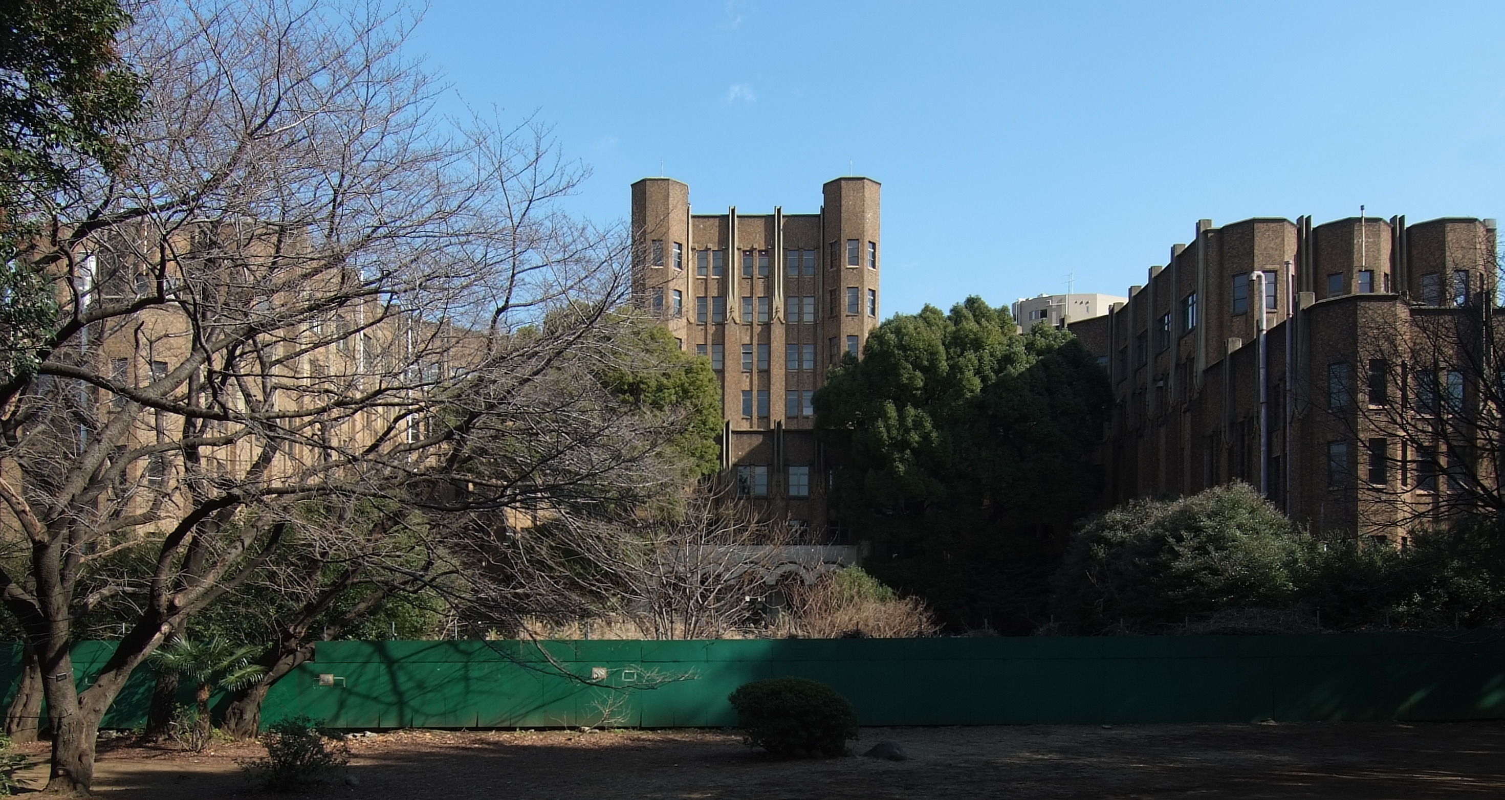 Former National Institute of Public Health of Japan Shirogane Office.